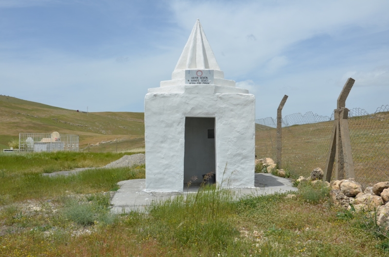 Yazidi temple in Yolveren (Cinerî) in the Beşiri district of the Batman Province in Turkey